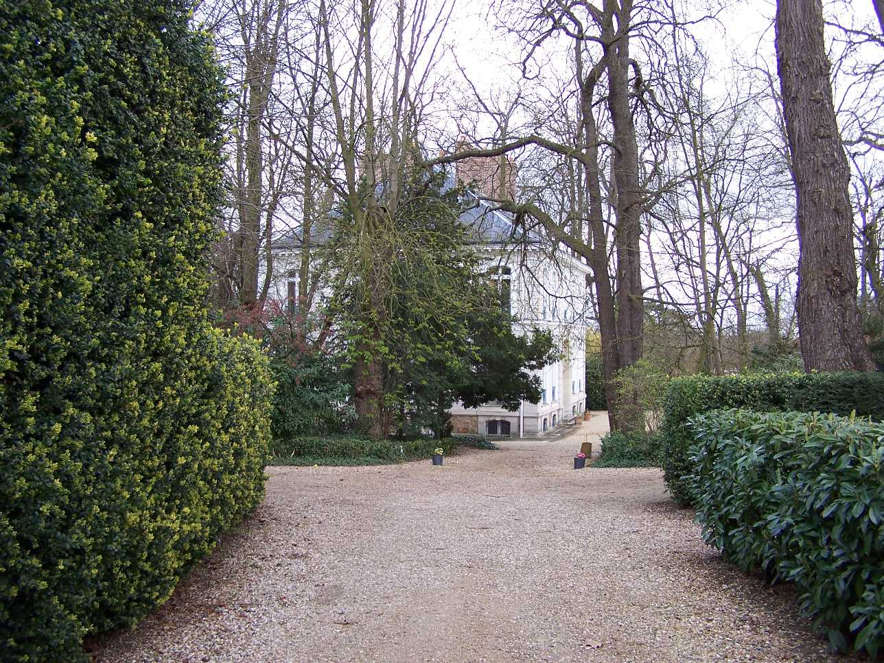 Pavillon of Voisins in Louveciennes (Yvelines, France)